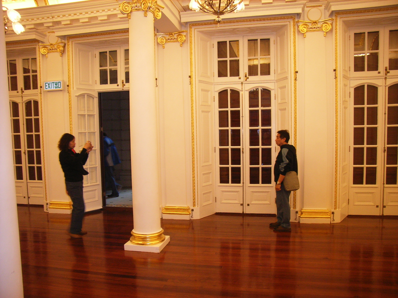 Dining Hall on the first floor of Dr. Sun Yat-sen Museum 孫中山紀念館, Kom Tong Hall (甘棠第) at 7 Castle Road, Central, Hong Kong. 甘棠第昔日舉行正式宴會的宴會廳，稱為「白廳」